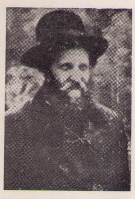 This photograph is in the public domain because according to the Art. 3 of copyright law of March 29, 1926 of the Republic of Poland and Art. 2 of copyright law of July 10, 1952 of the People's Republic of Poland, all photographs by Polish photographers (or published for the first time in Poland or simultaneously in Poland and abroad) published without a clear copyright notice before the law was changed on May 23, 1994 are assumed public domain in Poland. This work is in the public domain in the United States because it meets three requirements: it was first published outside the United States (and not published in the U.S. within 30 days), it was first published before 1 March 1989 without copyright notice or before 1964 without copyright renewal or before the source country established copyright relations with the United States, it was in the public domain in its home country (Poland) on the URAA date (1 January 1996). To uploader: Please provide where and when the image was first published. Rabbi Menachem Zamaba, Killed in Warsaw Ghetto